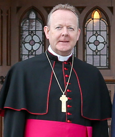 Eamon Martin, Prince Charles, and Richard Clarke in front of St Patrick's Cathedral, Armagh